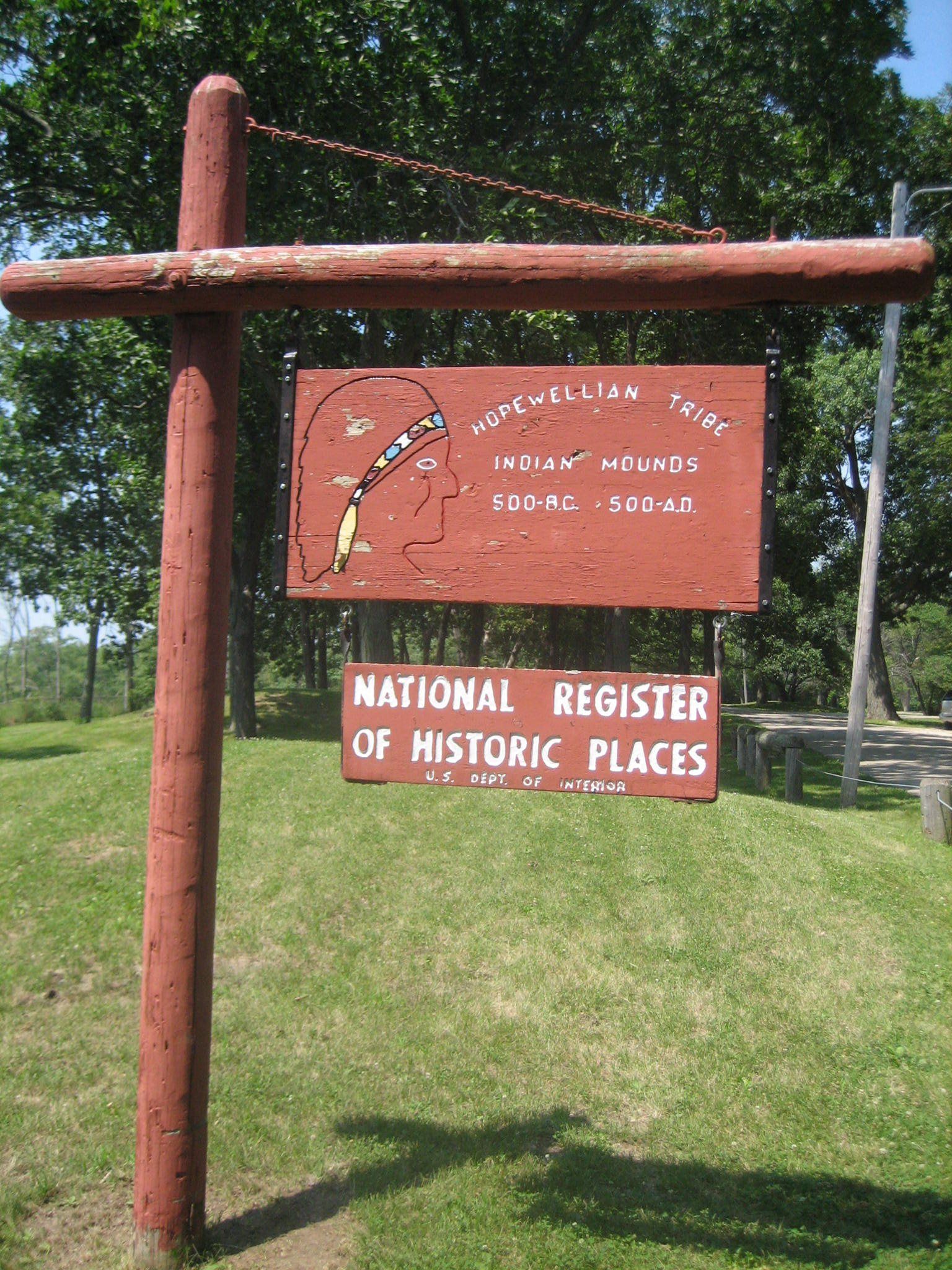 Sinnissippi Site, Sinnissippi Park, Sterling, Illinois. U.S. National Register of Historic Places. The site contains several Hopewellian Indian Mounds built between 500 B.C.E. and 500 C.E.